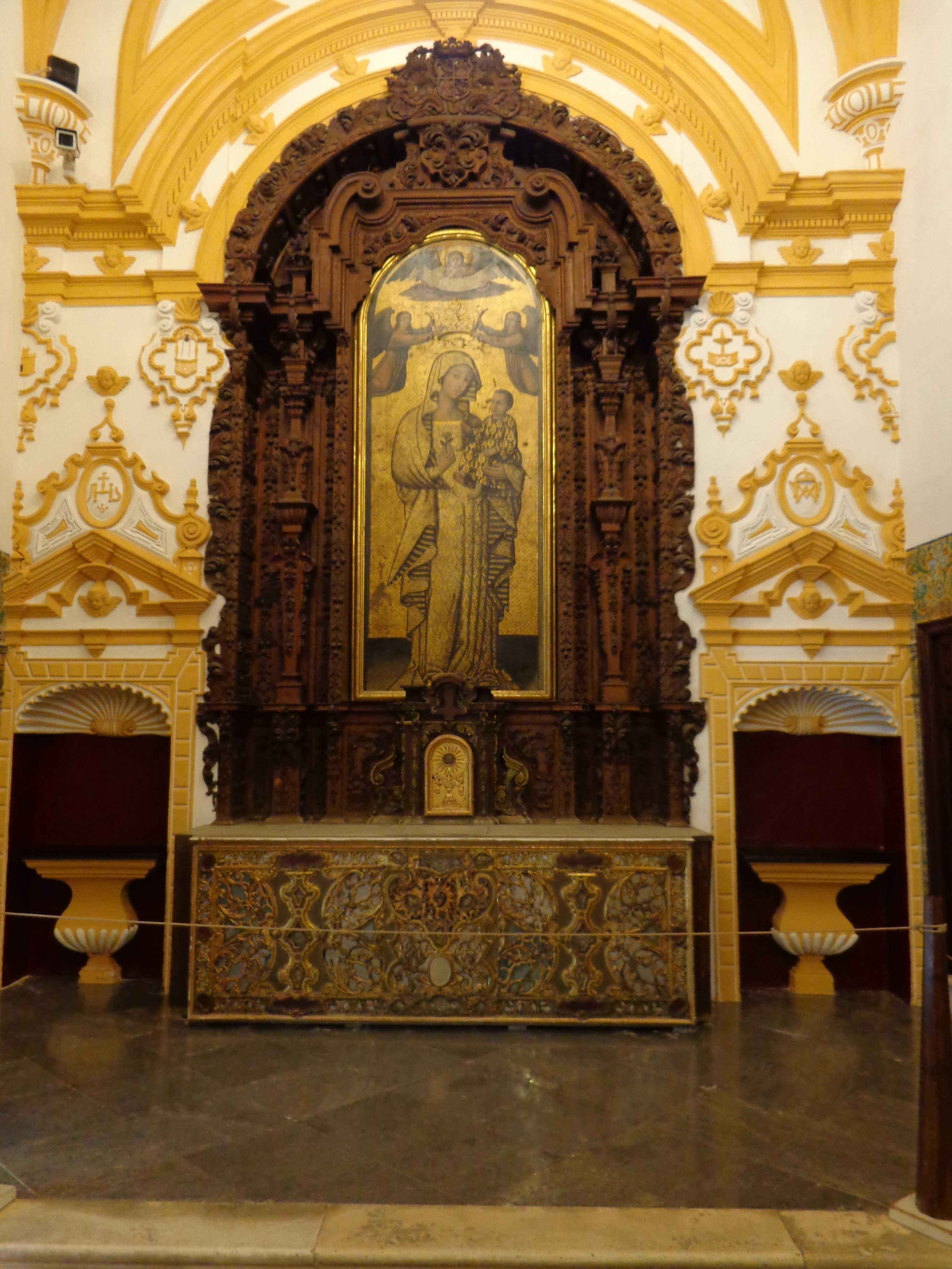 Alcázar of Seville.